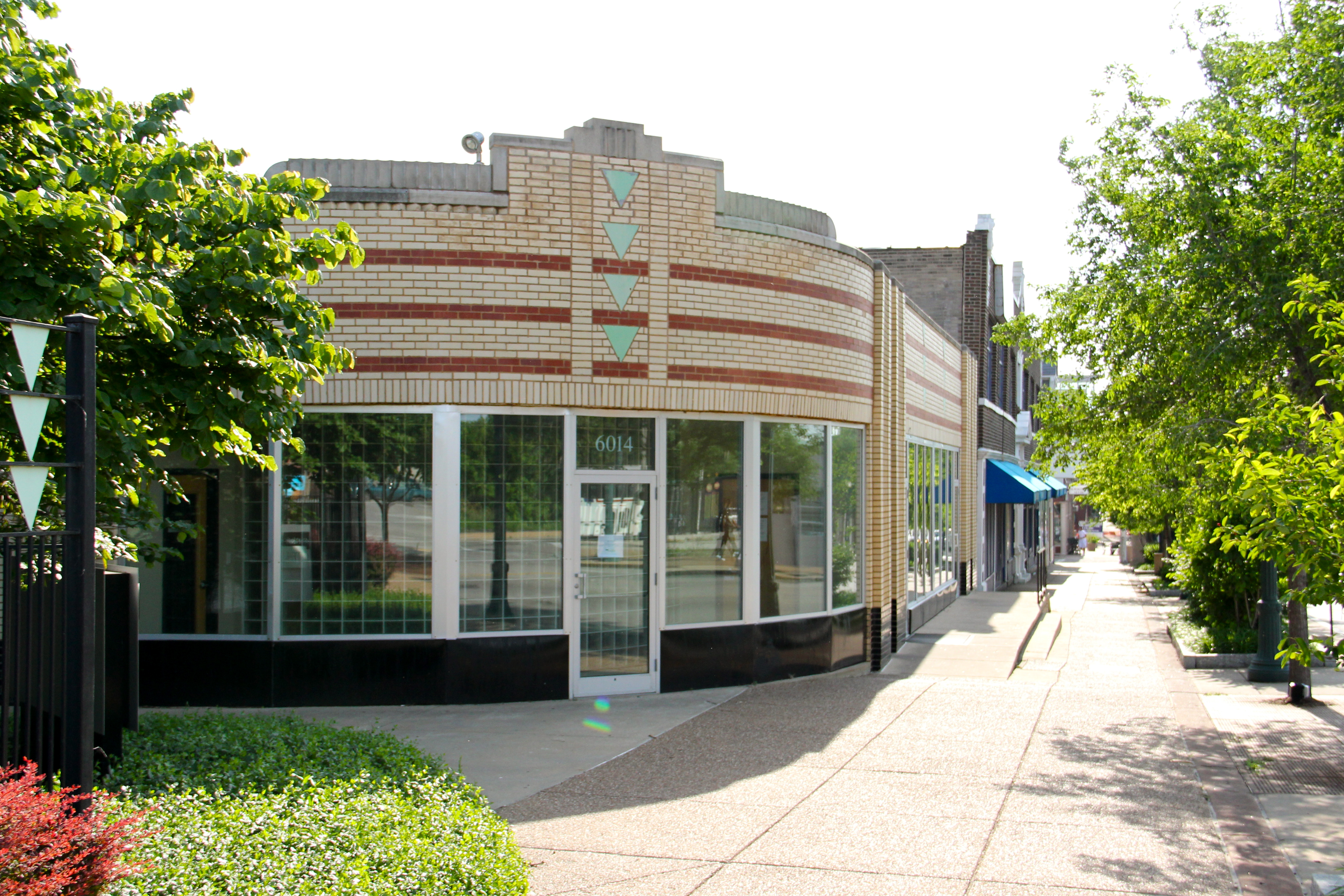 Art deco building. A & P Food Stores Building, an NRHP site.